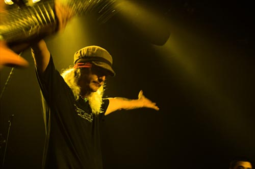 Atheist, live at Hole In The Sky, Bergen Metal Fest - 2006